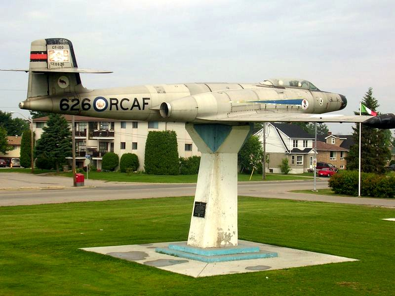 A CF-100 on display at Lee Park. Avro Canada CF-100 showing its cruciform design tail.